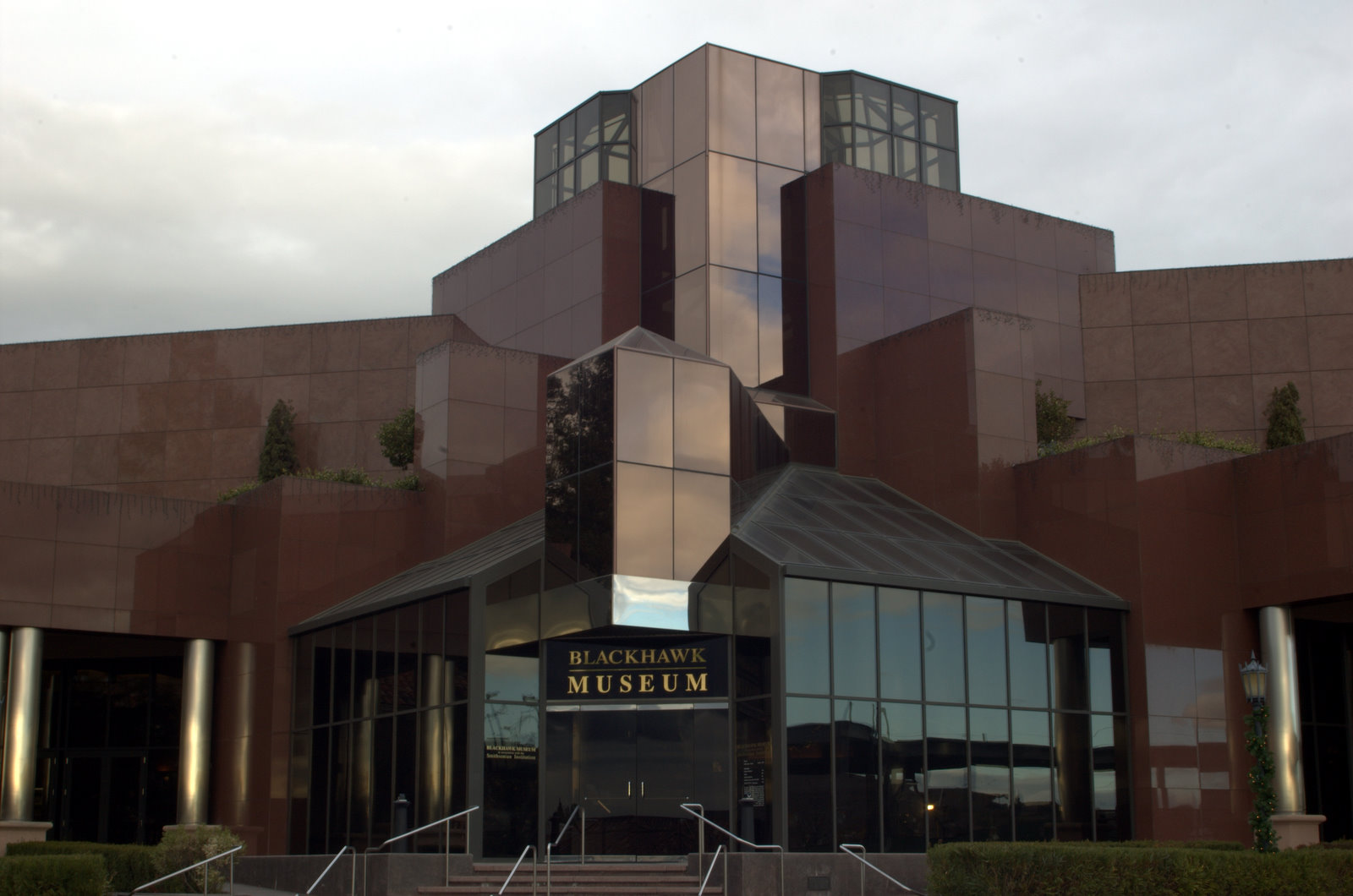 The Blackhawk Museum